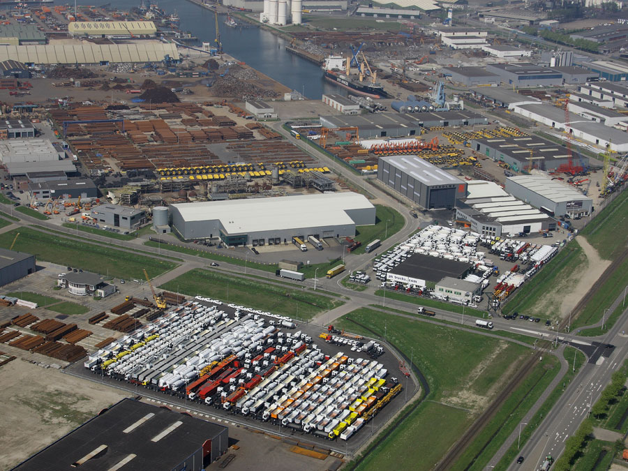 Aerial view of the pk trucks sites in Moerdijk, The Netherlands